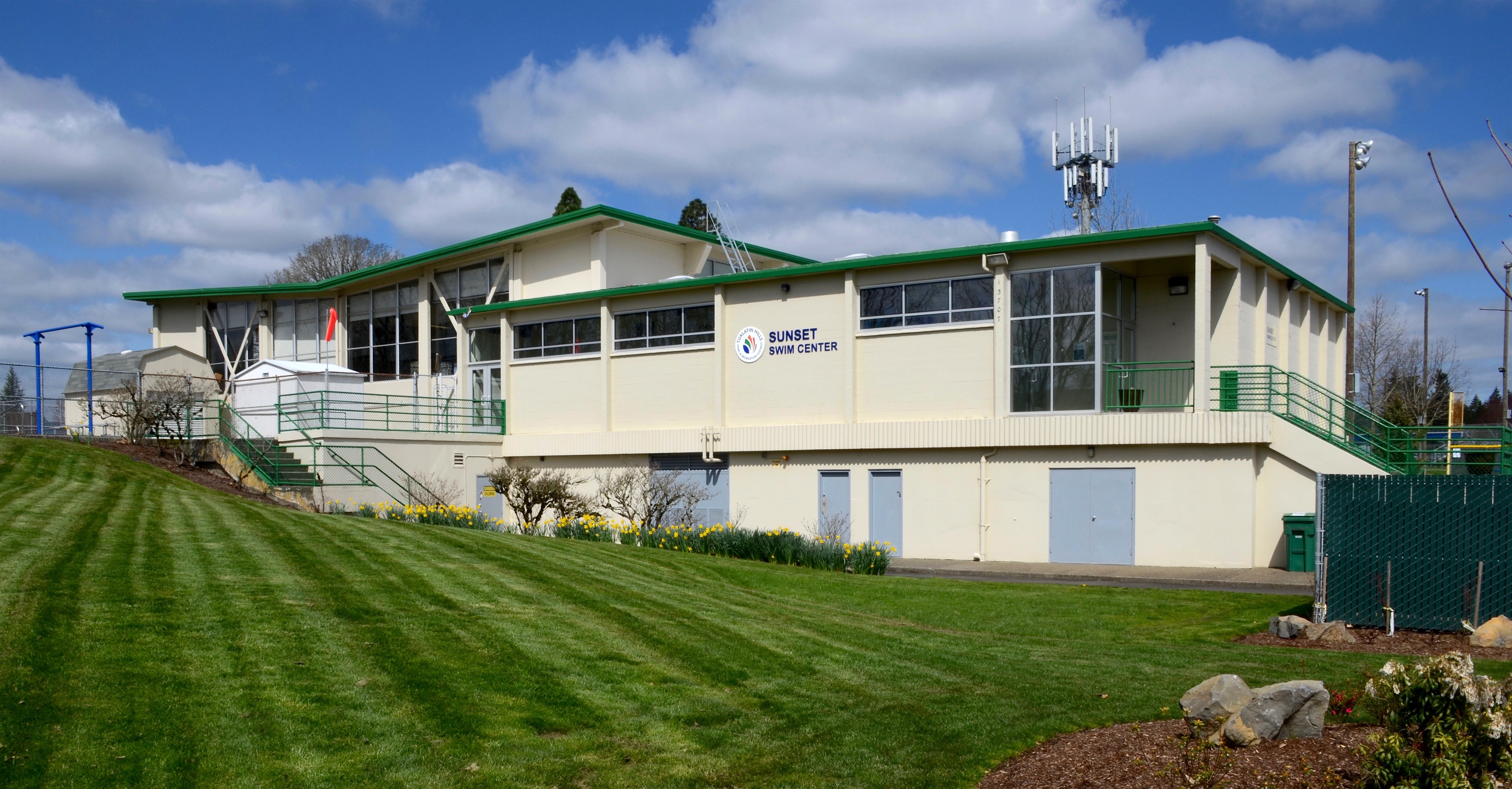 The Sunset Swim Center, located adjacent to Sunset High School, in Beaverton, Oregon, is operated by the Tualatin Hills Park & Recreation District. It is located on Science Park Drive, in the Cedar Mill area.